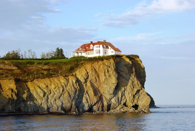 Cliff House (on Cape Canon), Percé.